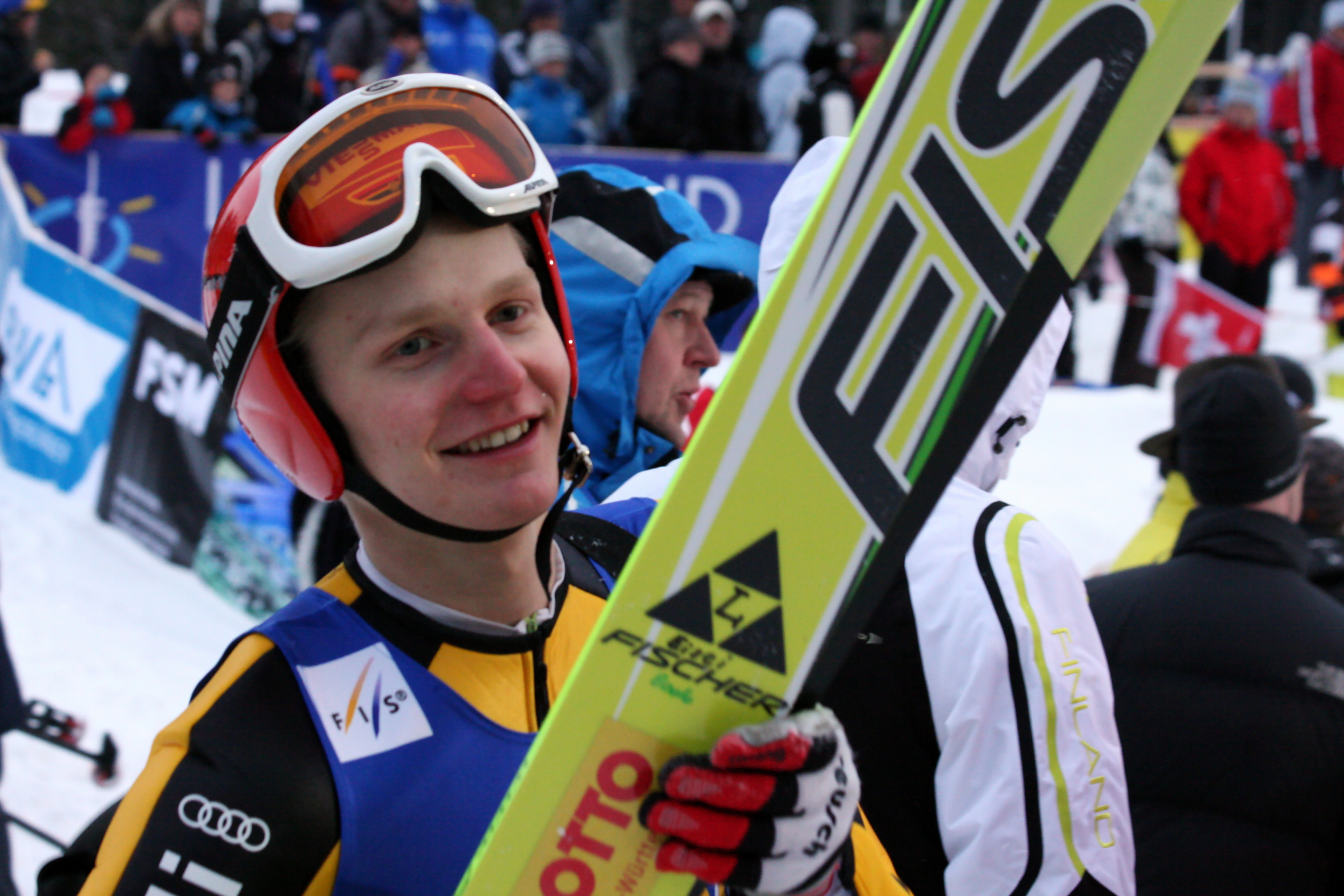 German ski jumper Pascal Bodmer at the 2010 Junior World Championships in Hinterzarten.